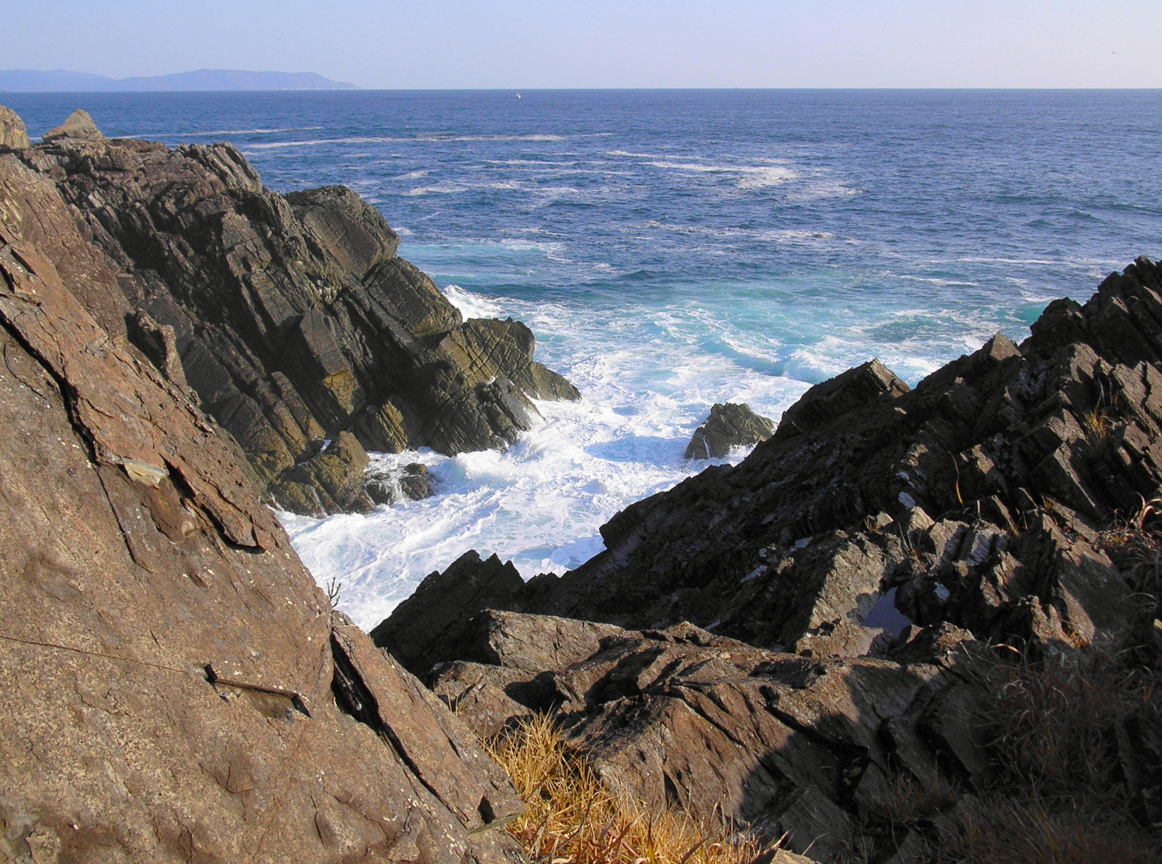 Osaki,Karakuwa-town,Kesennuma-city,Miyagi-prefecture,Japan.